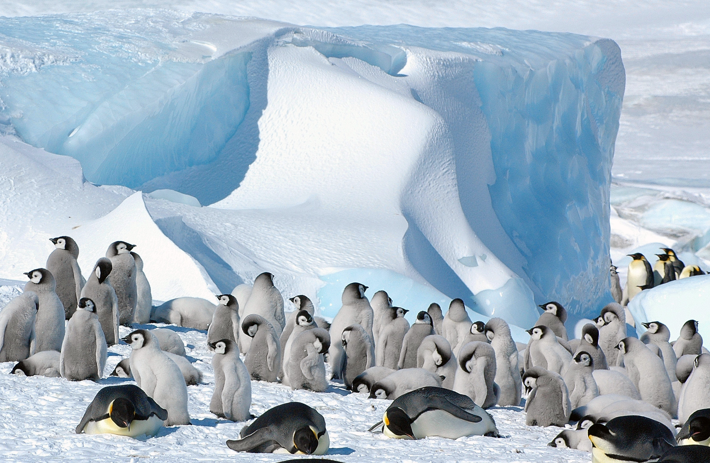 Emperor penguin on Snow Hill